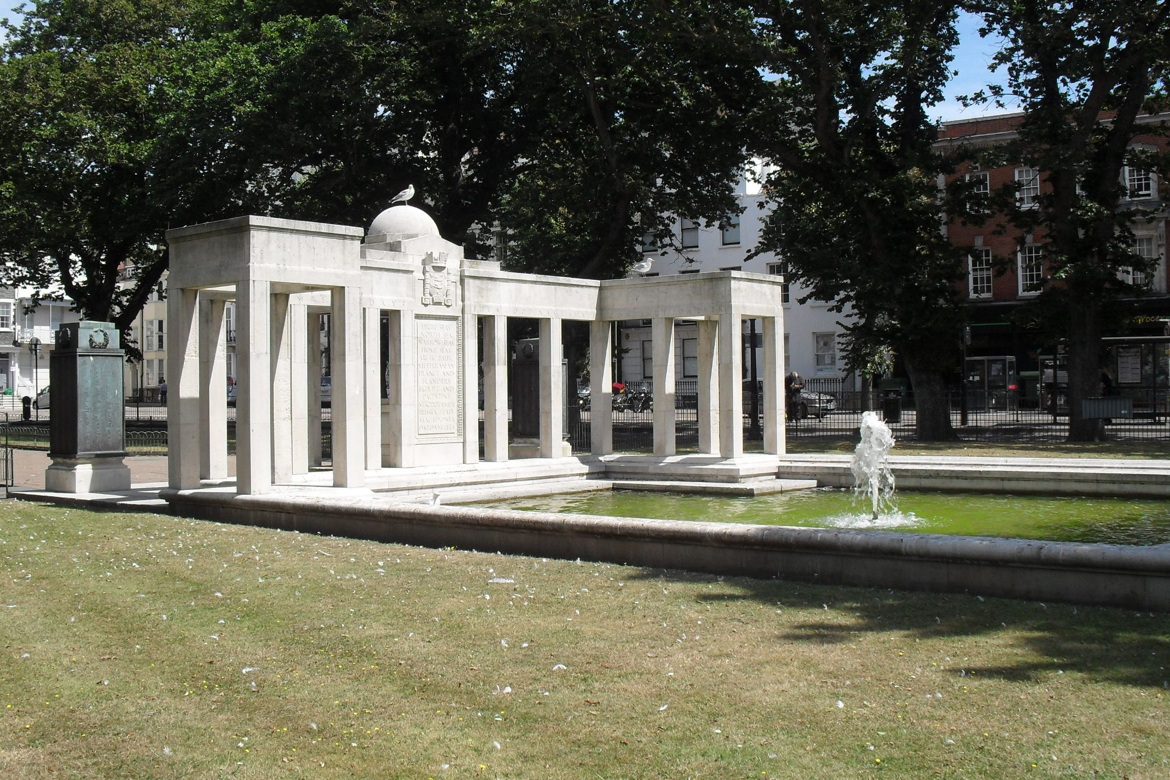 Brighton War Memorial, Old Steine, Brighton, City of Brighton and Hove, England. Architect Sir John Simpson designed this in 1922. Listed at Grade II by English Heritage (IoE Code 480999)